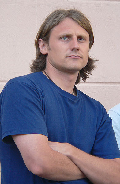 Bulgarian poet, critic and musician Ivan Hristov. This image is taken and reproduced with his permission